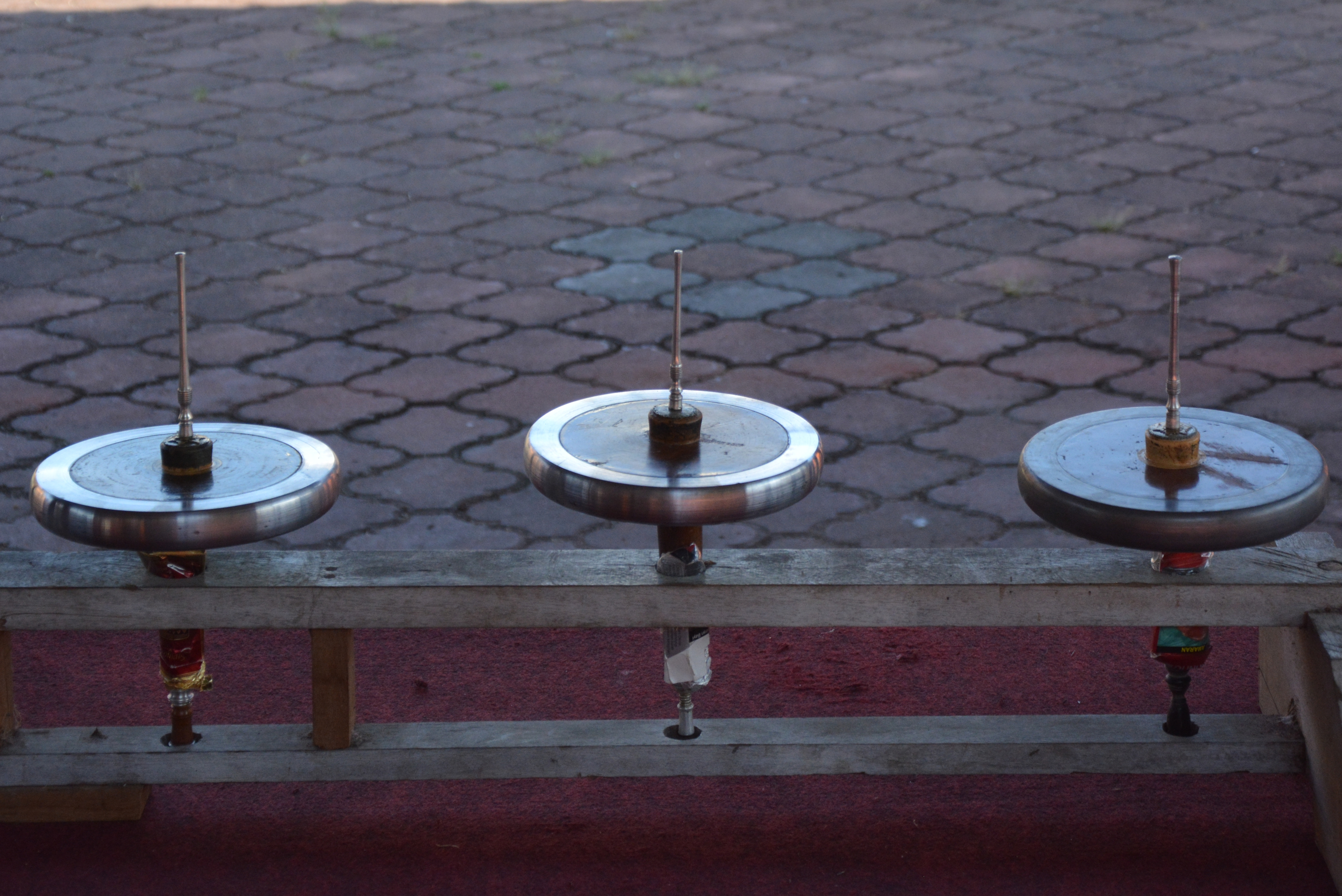 traditionnal spinning tops, Kota Bharu, Malaysia